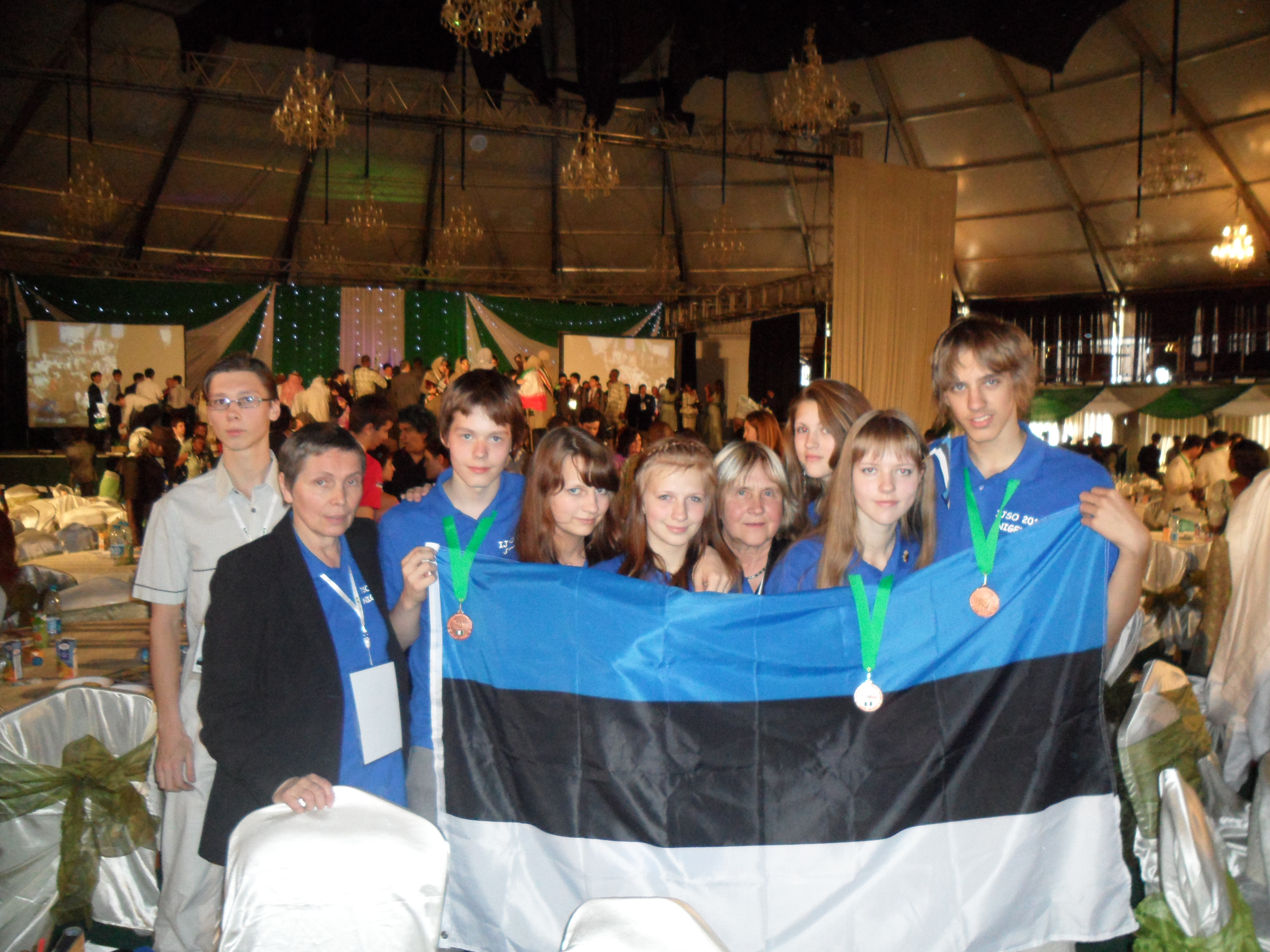 The Estonian Team at IJSO 2010, Nigeria, closing ceremony. From the left: Biology tutor Rudolf Bichele, Chemistry tutor Karin Hellat, Timothy Henry Charles Tamm, Kristine Leetberg, Enna Elismäe, Physics tutor Ülle Kikas, Maria Krajushkina, Mette Purde, Uku-Kaspar Uustalu.